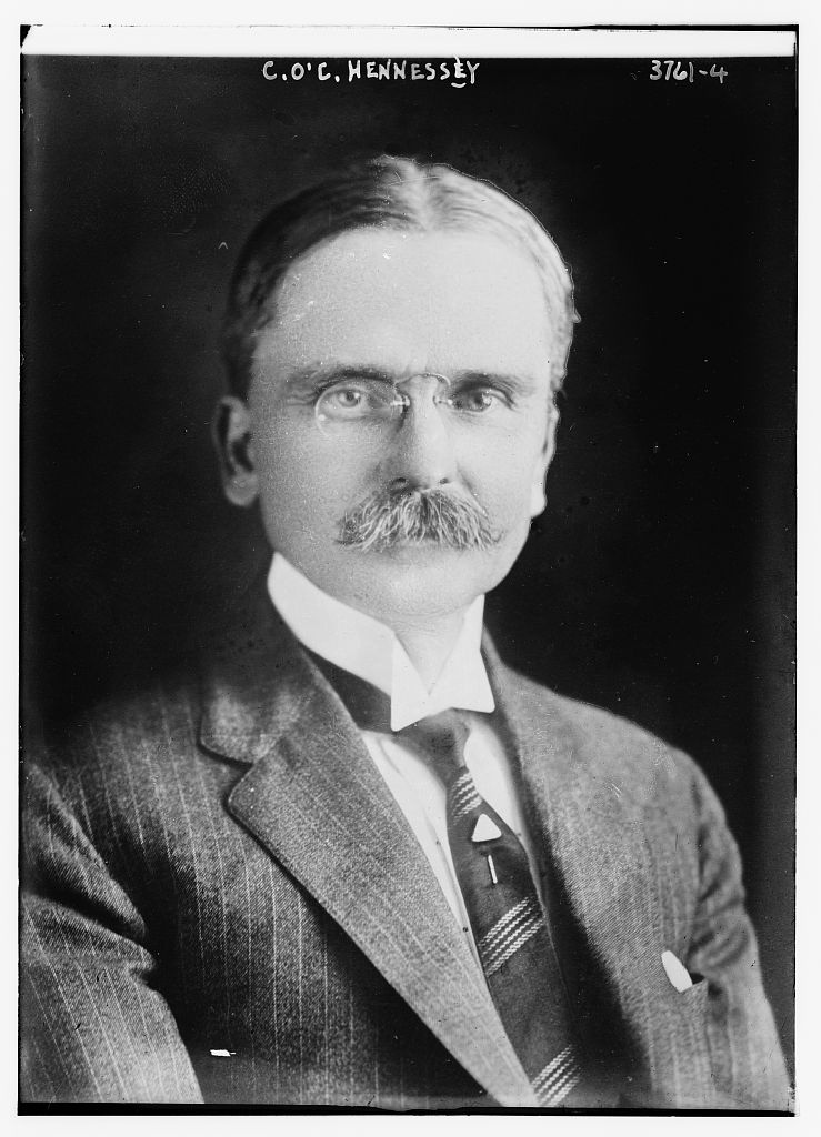 Charles O'Connor Hennessey (1860-1936) circa 1916. Image from the Library of Congress.